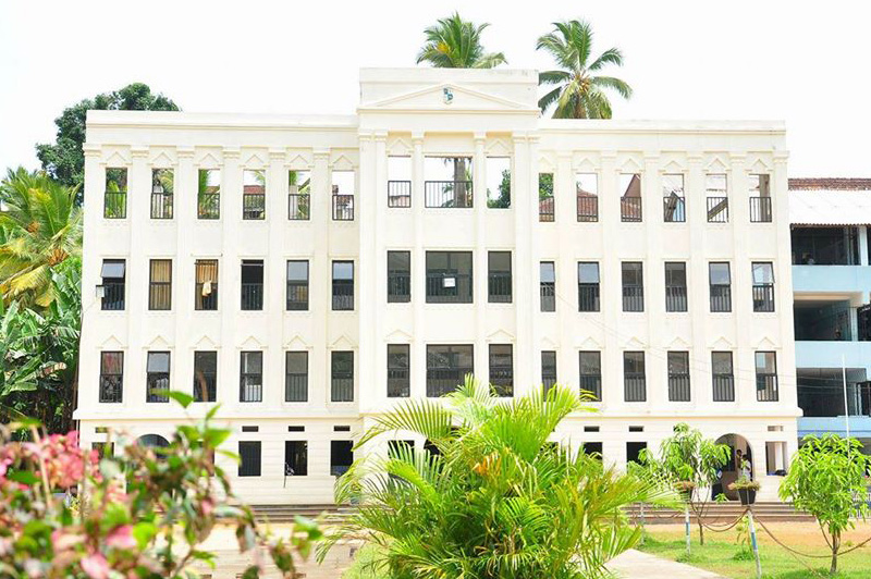 This is the Main & Symbolic Building of St.Aloysius College, Ratnapura